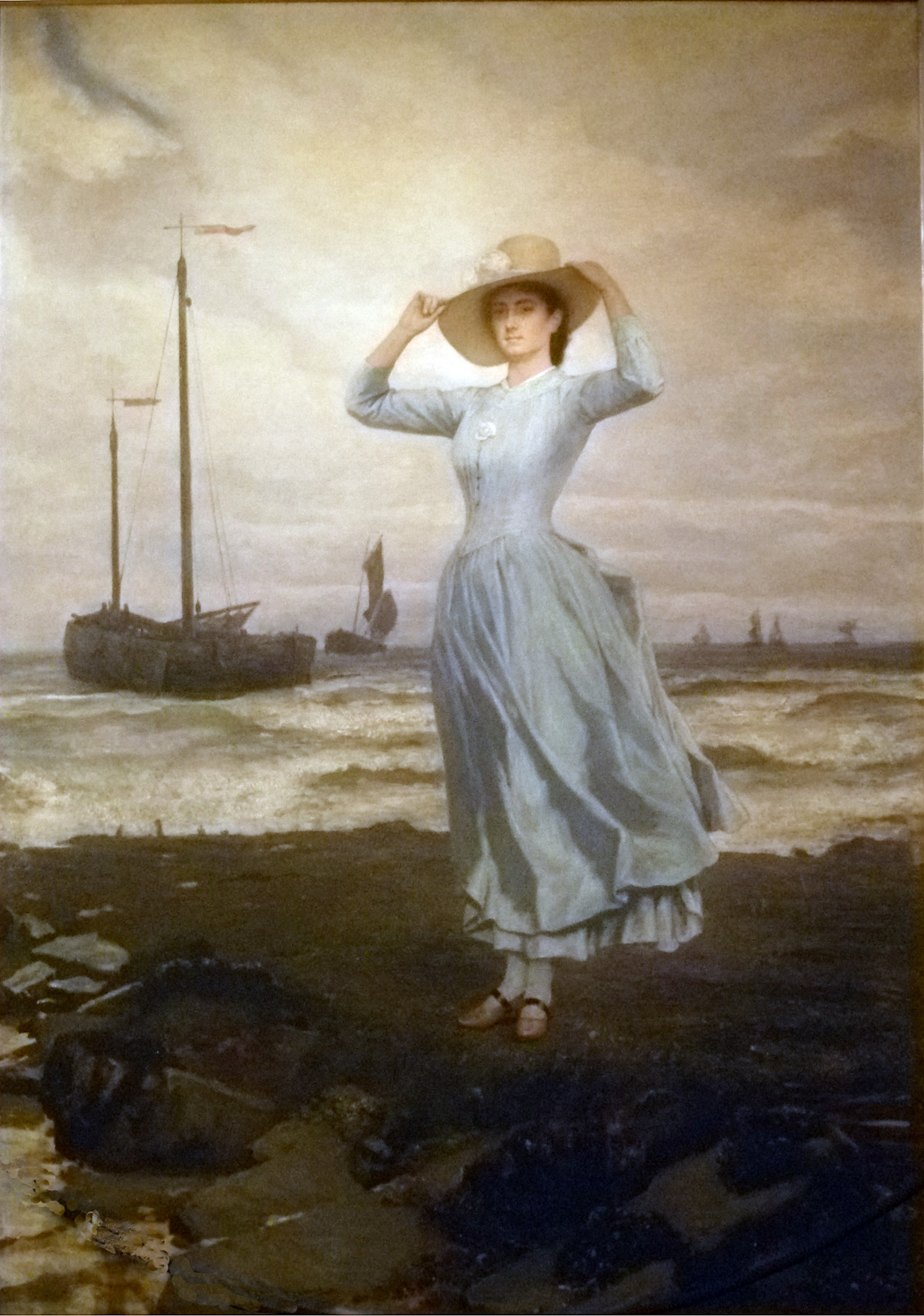 "On the breakwater" oil on canvas (336 x 247 cm) by the Belgian painter Jan Verhas; Stedelijke Musea, Dendermonde